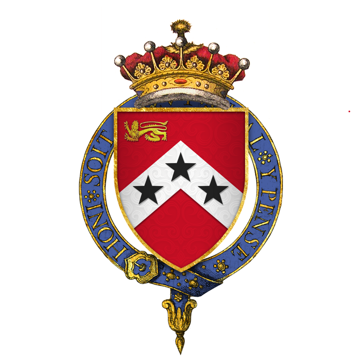 Coat of arms Sir Robert Carr, 1st Earl of Somerset, KG